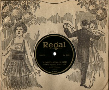 USA Regal Records label, 1920s